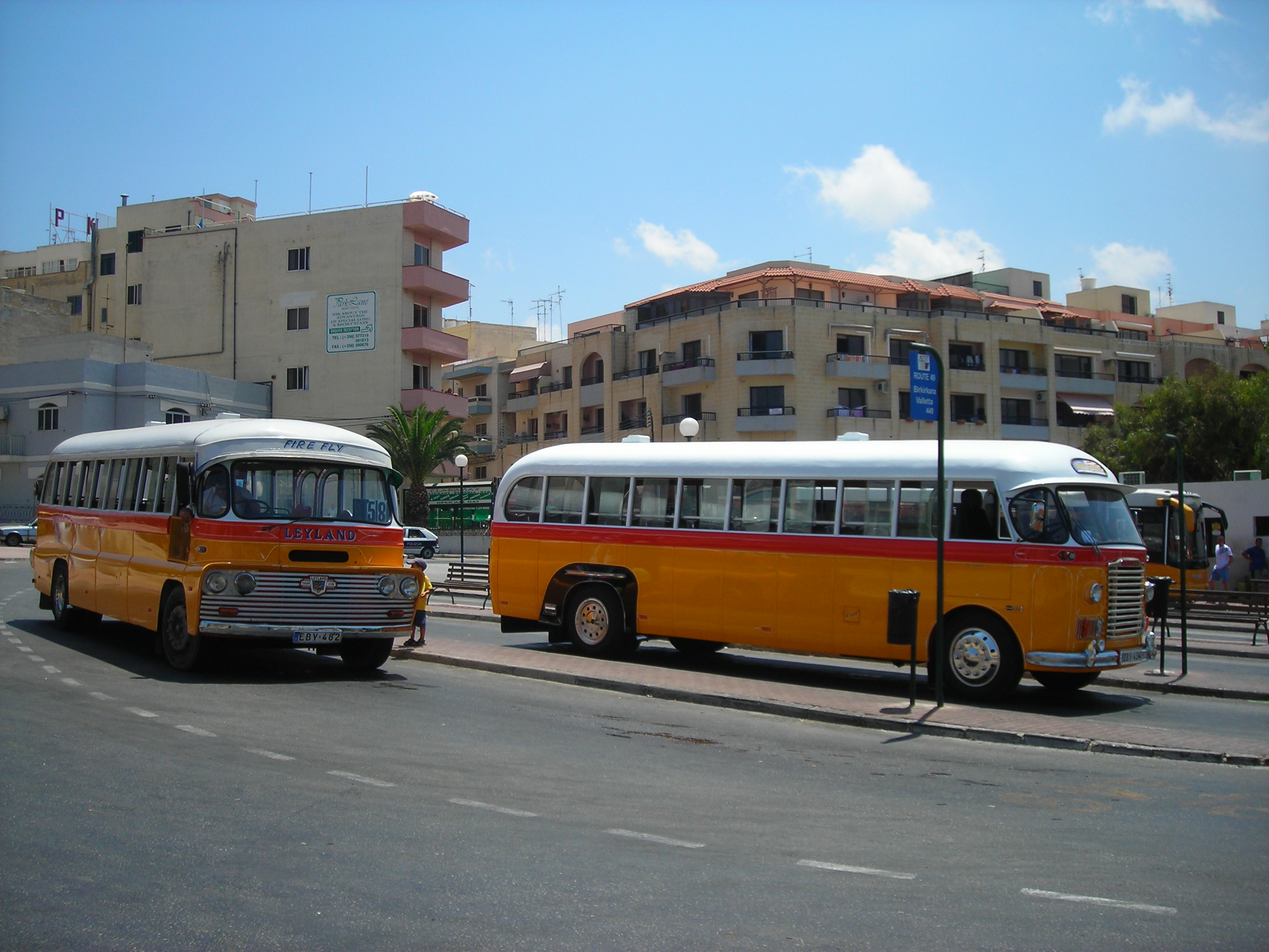 Characteristic oldtimer ATP buses in Malta.